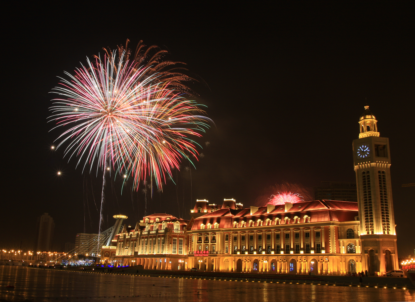 Tianjin Jin Wan Plaza, New Year's Eve Fireworks